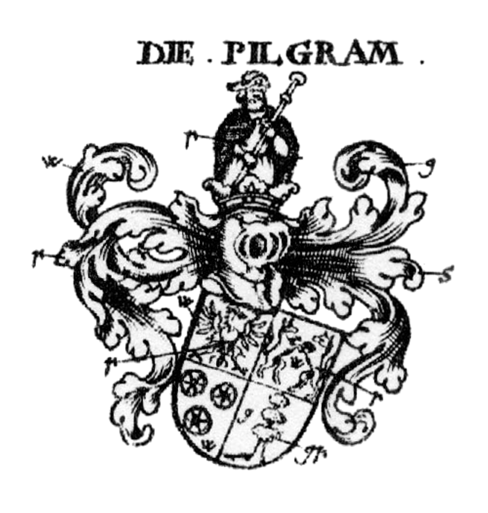 Coat of Arms of Pilgram (Nürnberg)